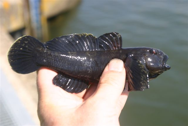 Neogobius melanoslomus